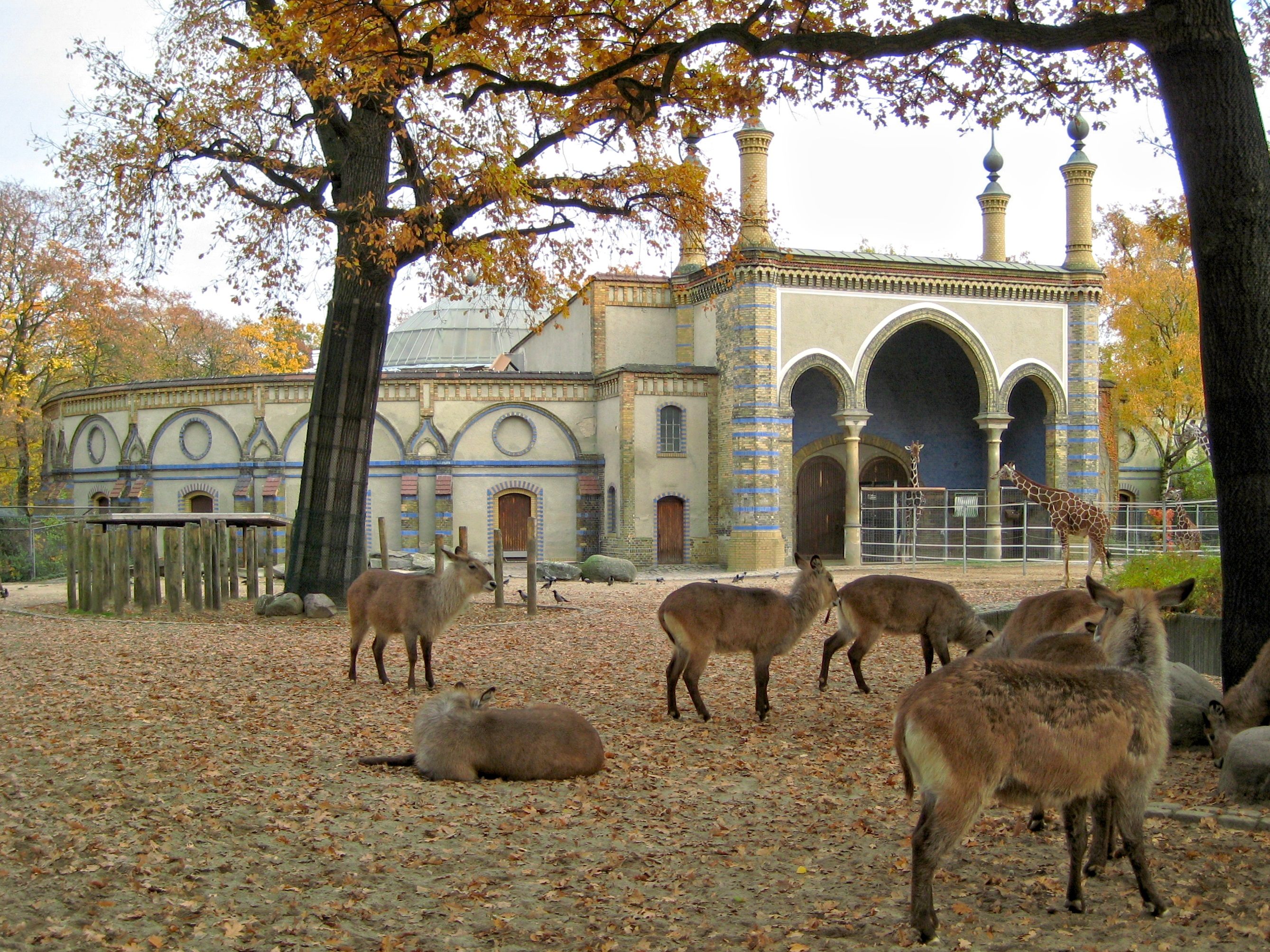 Antilopenhaus at the Zoo of Berlin